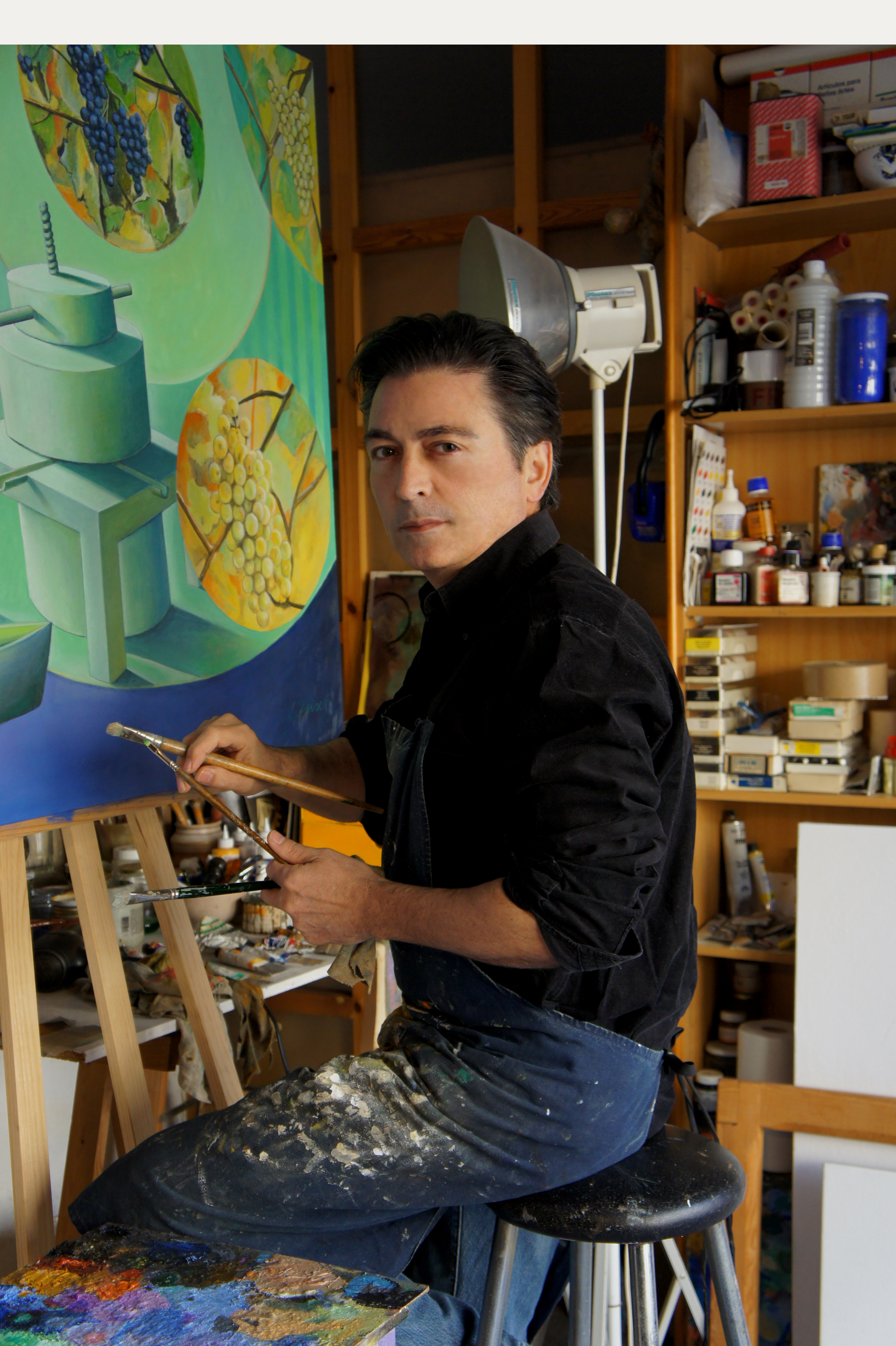 Joan Tuset.Taller de l'Arboç 2012